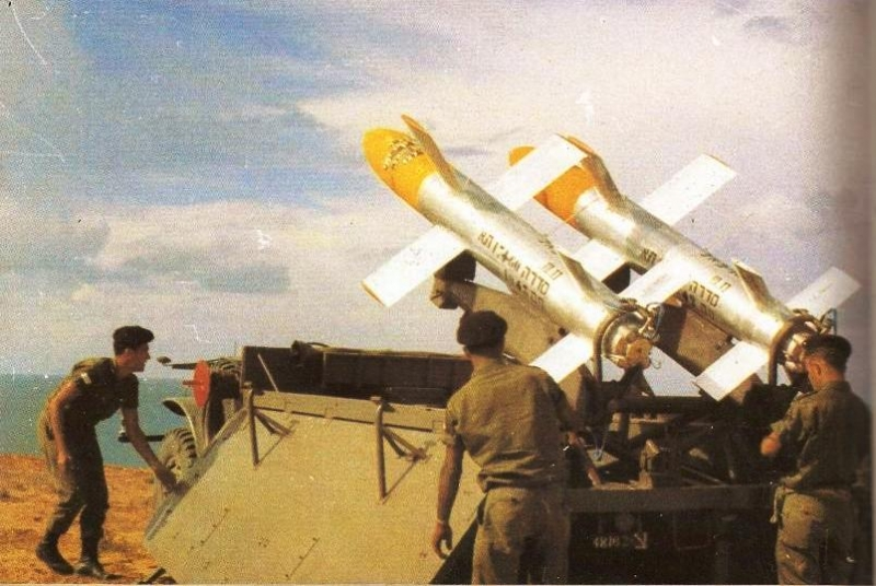 Testing the Luz missiles launch on IDF Off-road vehicle from a beach to a naval targets (1961)